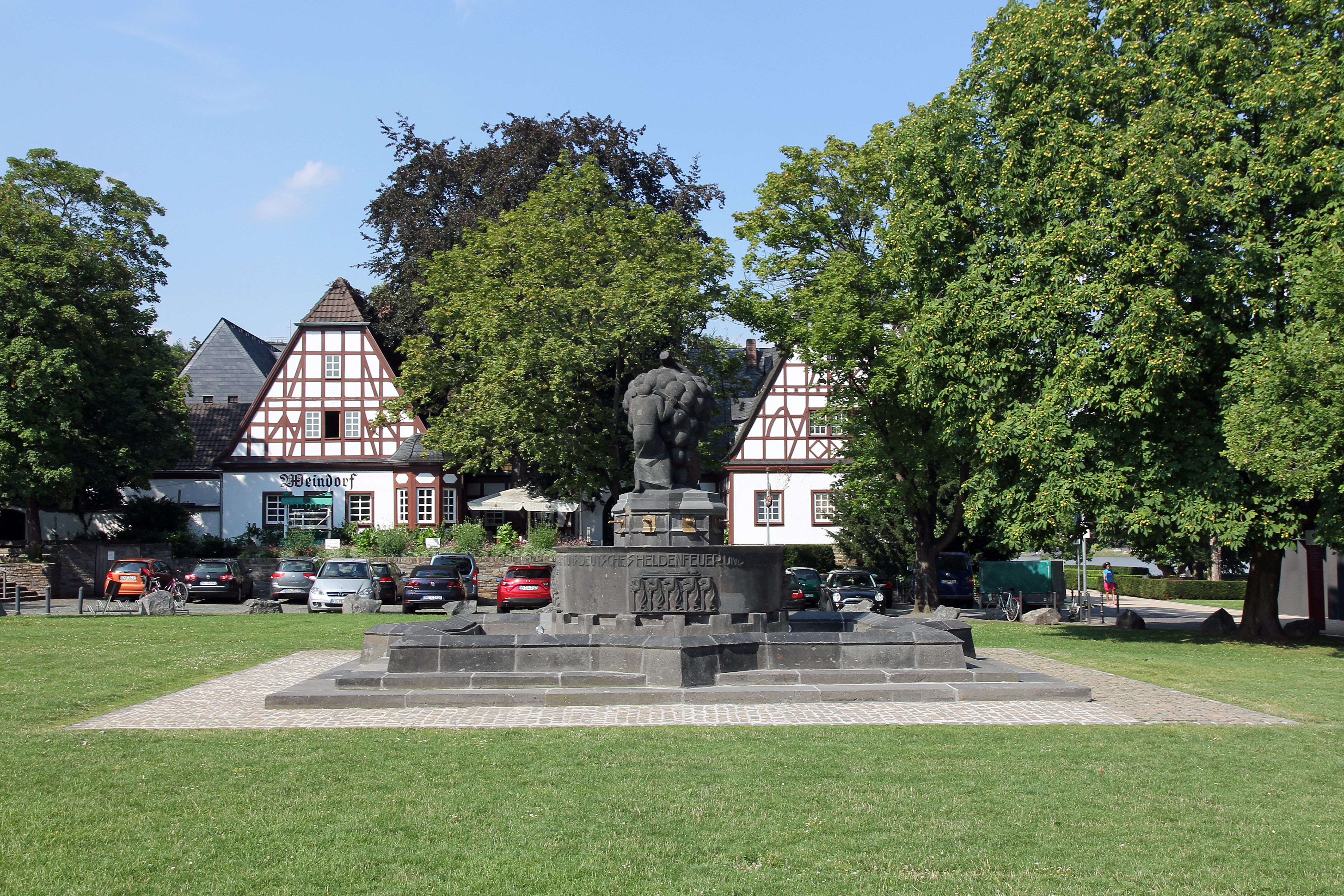 Wine fountain in the rhine gardens of Koblenz